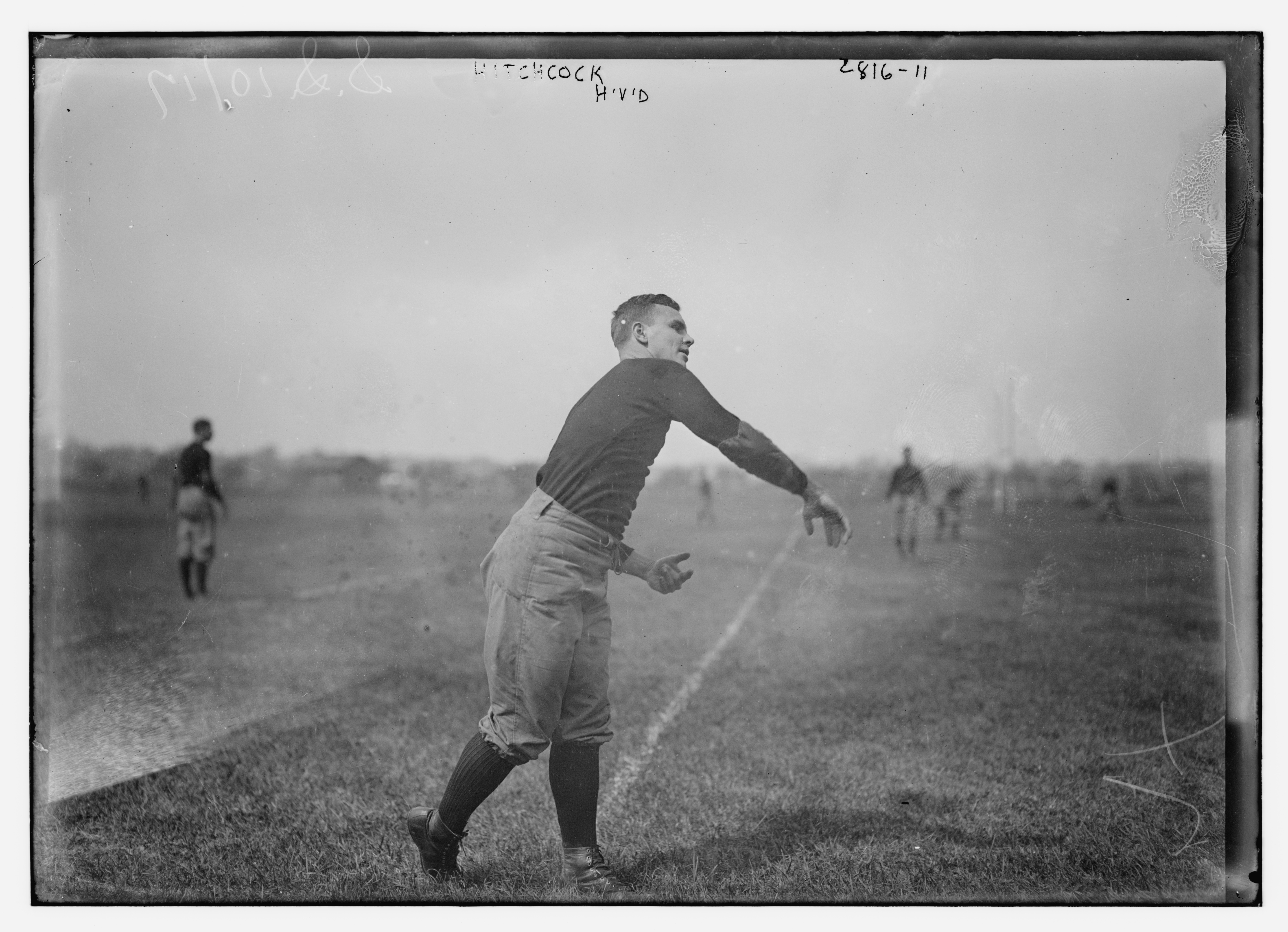 Bain News Service,, publisher. Harvey Rexford Hitchcock at Harvard University [between ca. 1910 and ca. 1915] 1 negative : glass ; 5 x 7 in. or smaller. Notes: Title from unverified data provided by the Bain News Service on the negatives or caption cards. Forms part of: George Grantham Bain Collection (Library of Congress). Format: Glass negatives. Repository: Library of Congress, Prints and Photographs Division, Washington, D.C. 20540 USA, General information about the Bain Collection is available at Persistent URL: Call Number: LC-B2- 2816-11